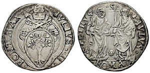 Italy, Papal States. Iulius II. 1503-1513. AR Giulio (3.29 g). Rovere arms within quatrefoil. IVLIVS II PONT. MAX. Ss. Paul and Peter standing facing; rosette between. S. PETRVS. S. PAVLUS. in exergue: ROMA. Muntoni I pg. 102, 28; Berman 576.